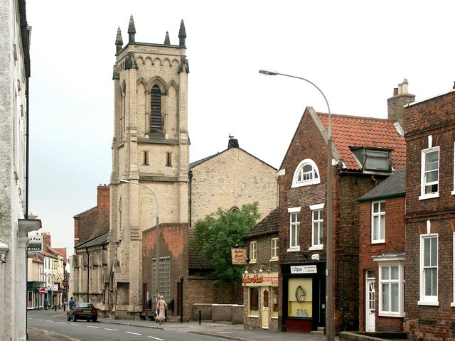 View northwest along part of Bigby Street, Brigg, Lincolnshire, to the parish church of St John the Evangelist